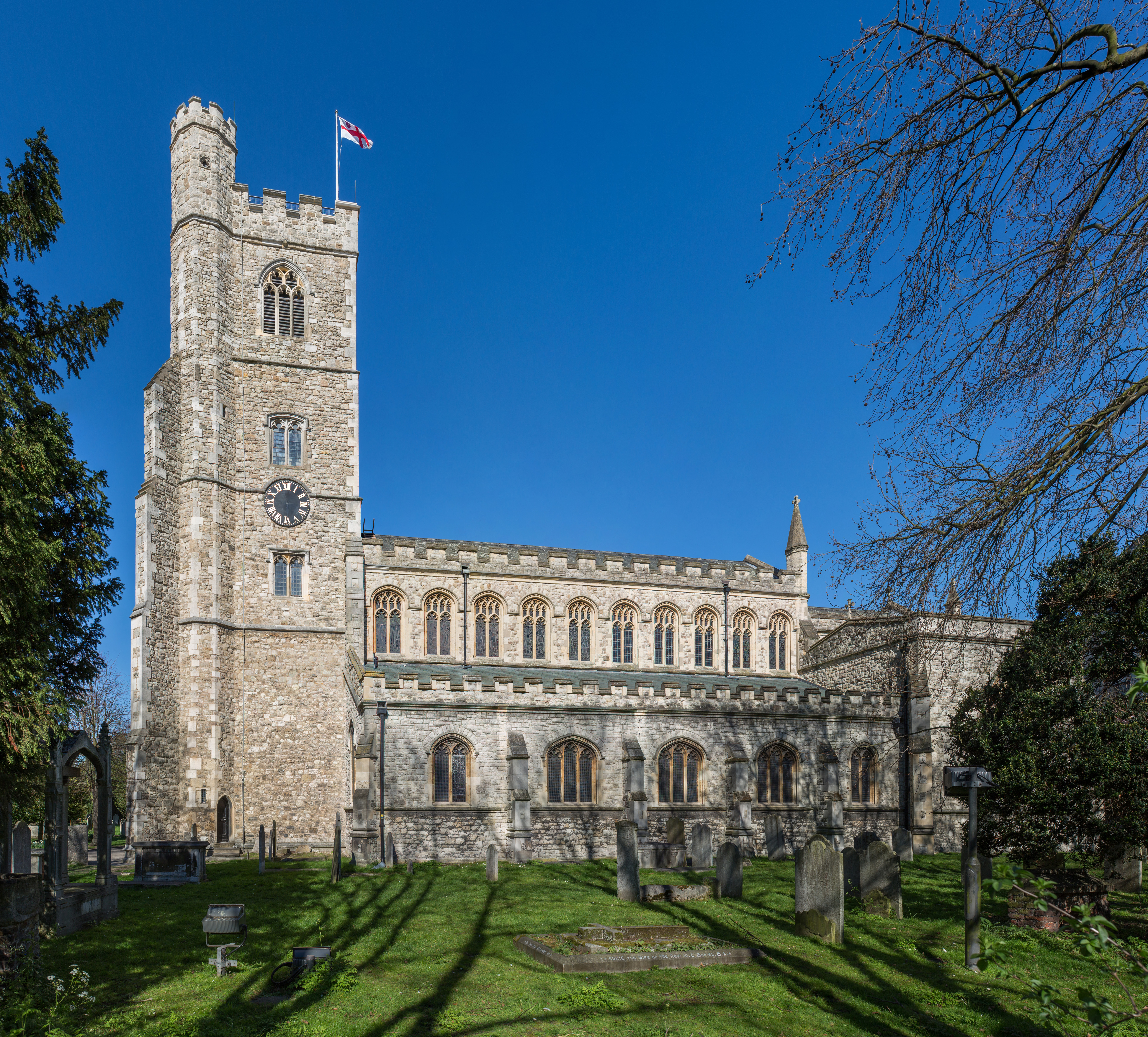 All Saints Church, Fulham, viewed from the south